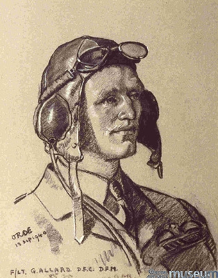 Portrait by Cuthbert Orde of Flight Lieutenant Geoffrey Allard DFC, DFM*, drawn 13 September 1940